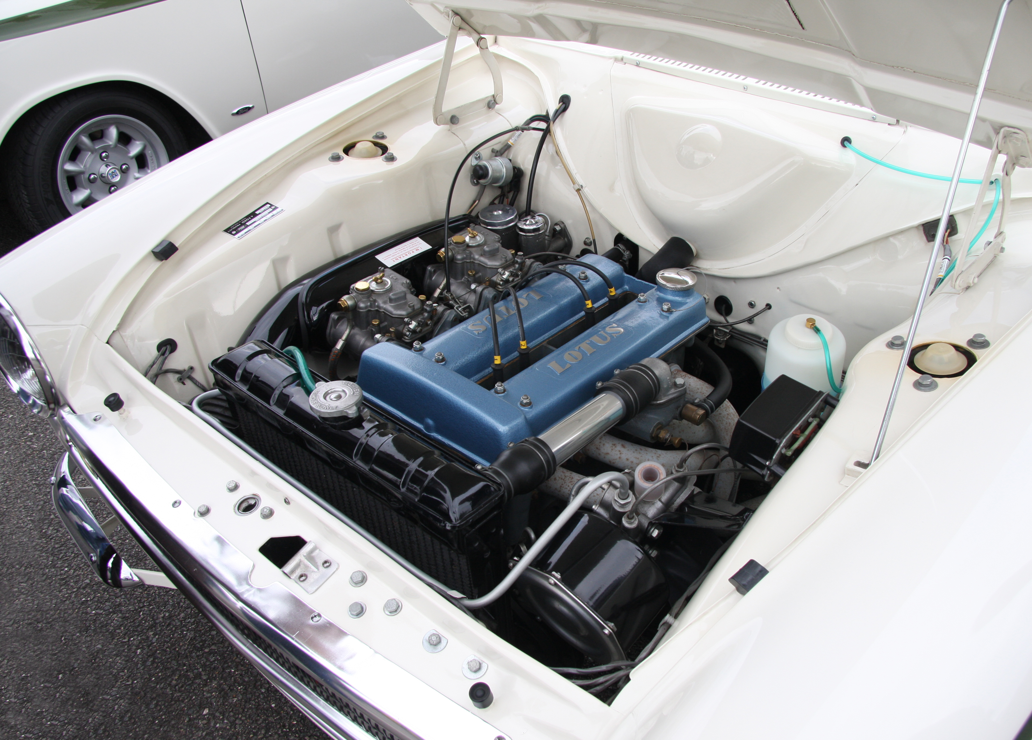 Lotus 60th Celebration